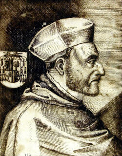 Ennio Filonardi